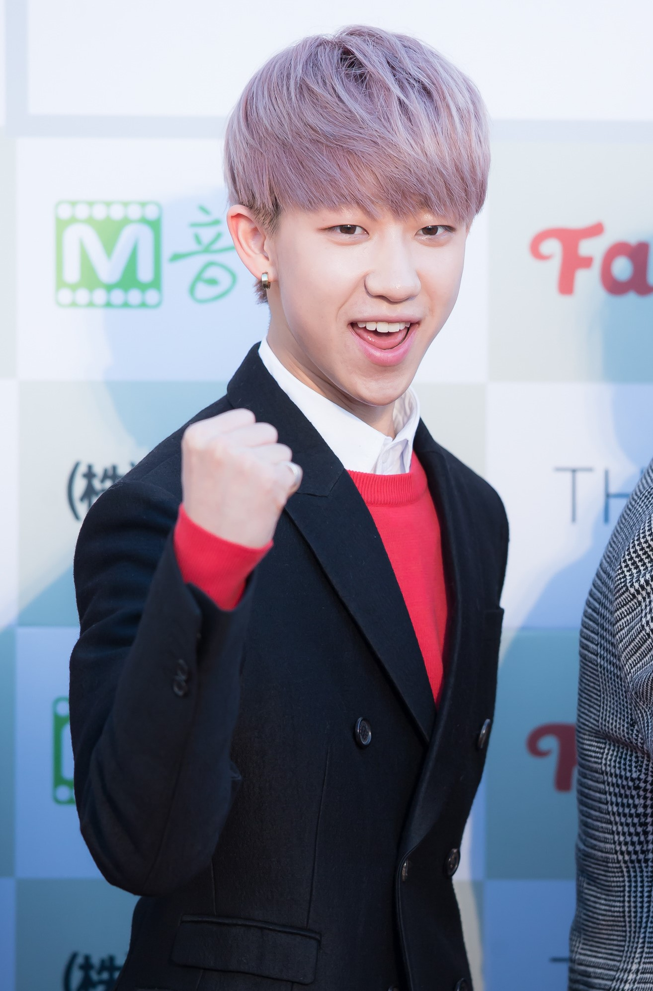 The8 on the red carpet of the Gaon Chart K-pop Awards, on February 17, 2016.